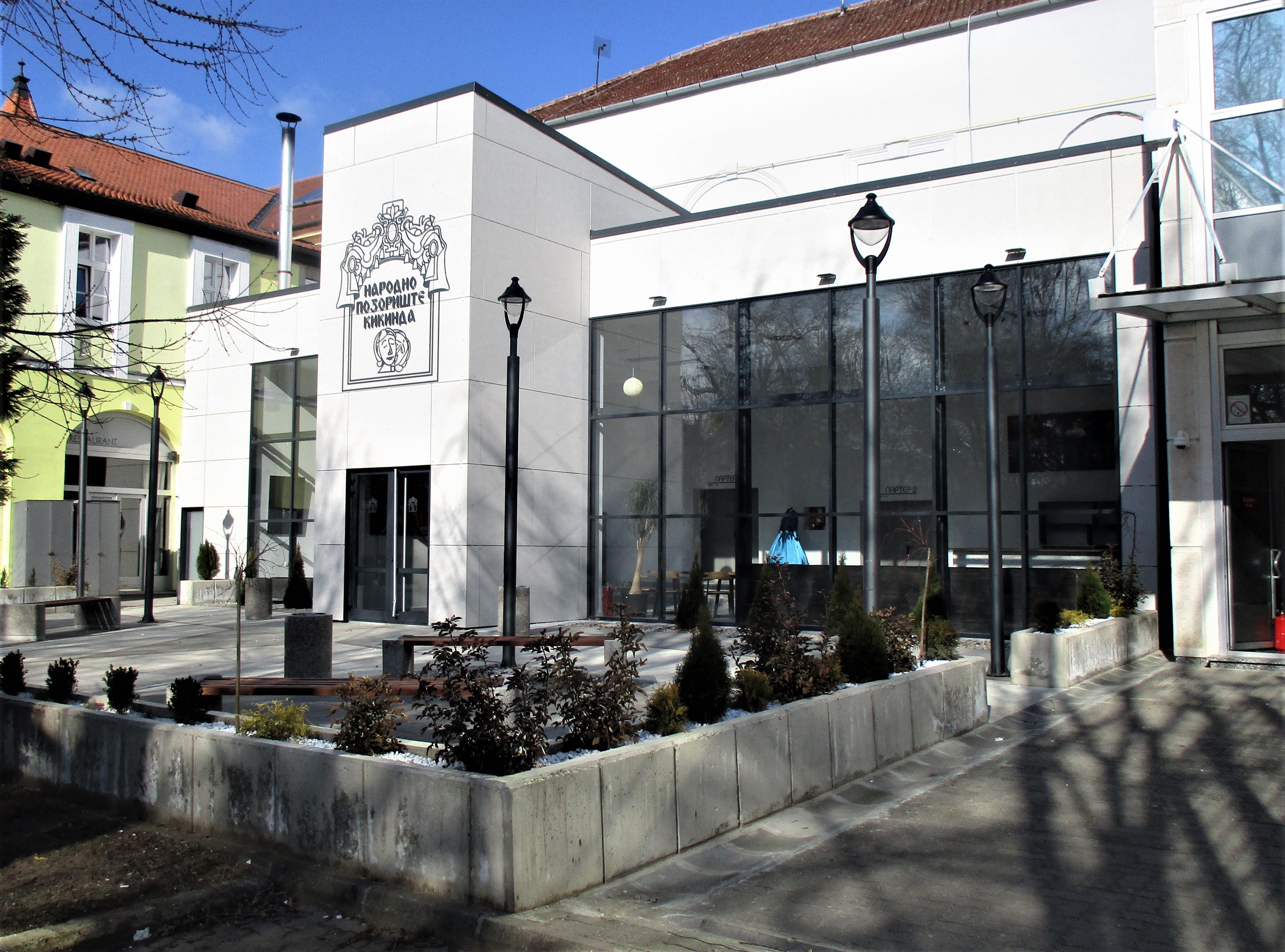 Entrance to National Theatre Kikinda